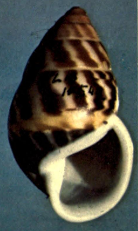 Photo of apertural view of the shell of paratype of Amphidromus perversus butoti. Paratype showing sultanus color pattern. Locality: Batupitih, Kangean Island; collected by Hoogerwerf. Zoologisch Museum, Amsterdam.